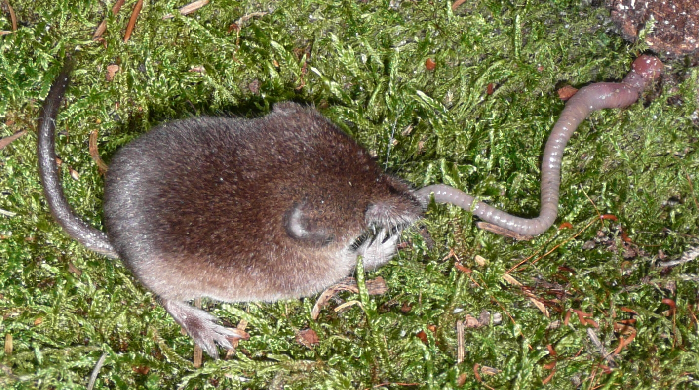 A Common Shrew eating an earthworm.